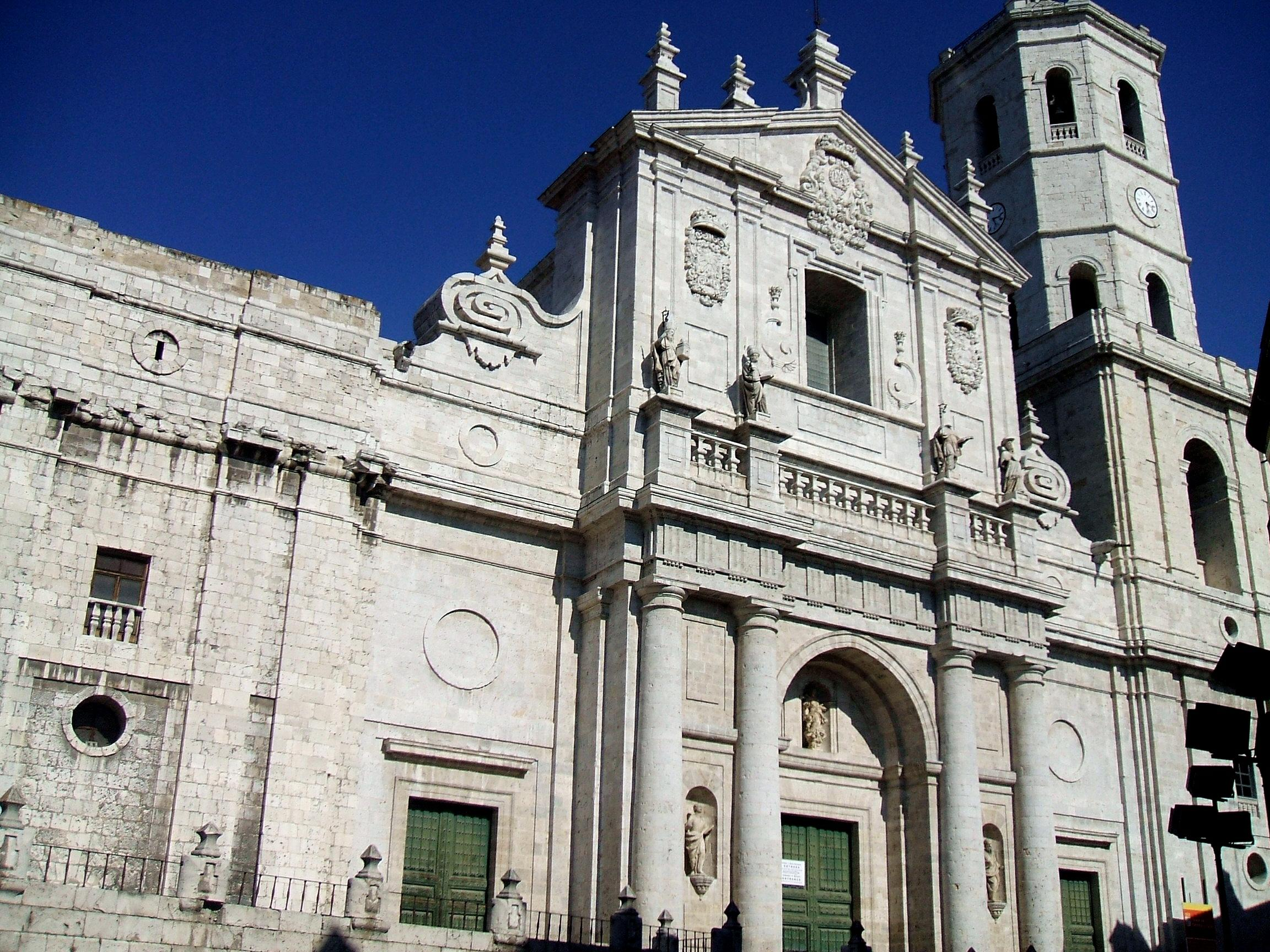 Catedral de Valladolid (Castilla y León, España)